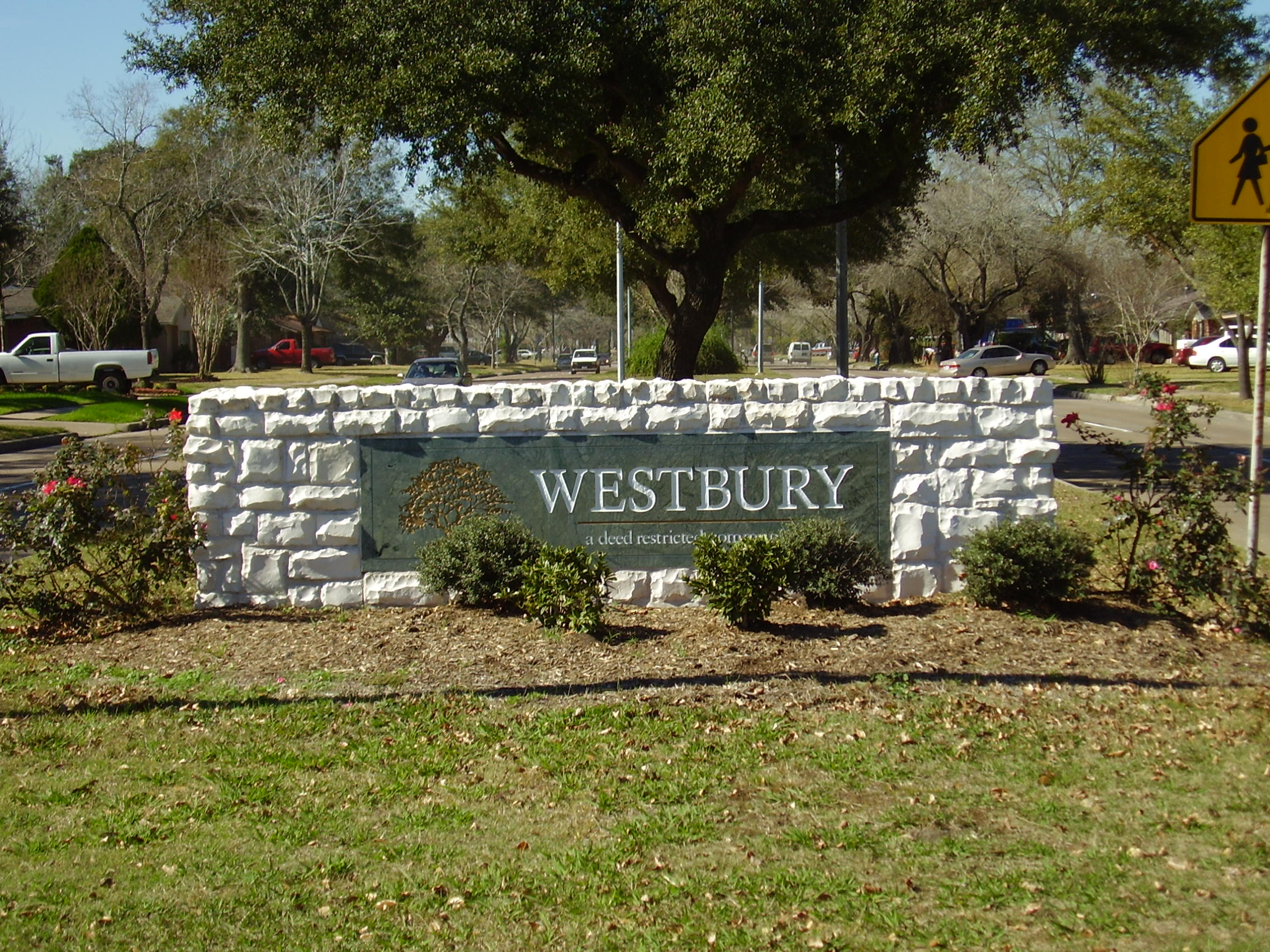 Marker of Westbury in Houston